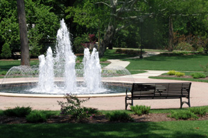 Cross Creek Linear Park, in Fayetteville, North Carolina.